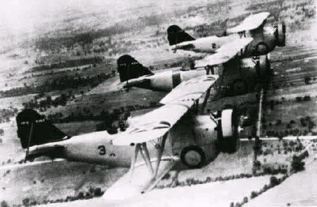 Three U.S. Navy Grumman FF-2 Fifi fighters near Naval Station Grosse Ile, Michigan (USA), in the mid-1930s.